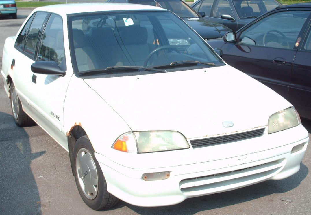 1992-1994 Geo Metro photographed in Montreal, Quebec, Canada.